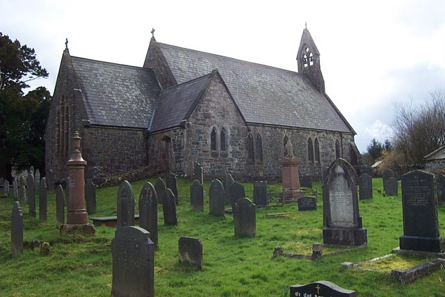 St John's Church at Ysbyty Ifan. St John's Church in Ysbyty Ifan atSH 84330 48910.